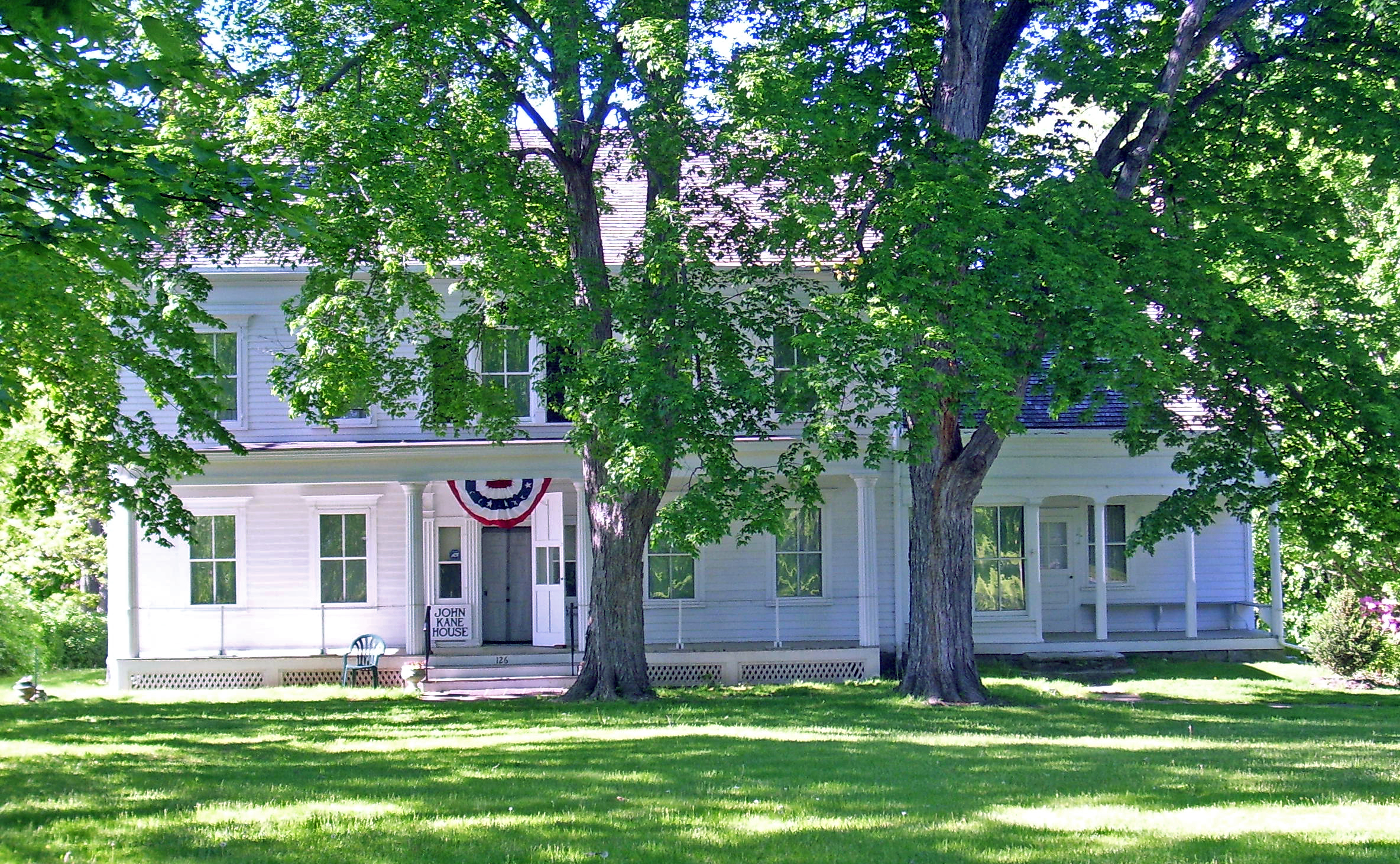 John Kane House, headquarters of George Washington in 1778, in Pawling, NY, USA